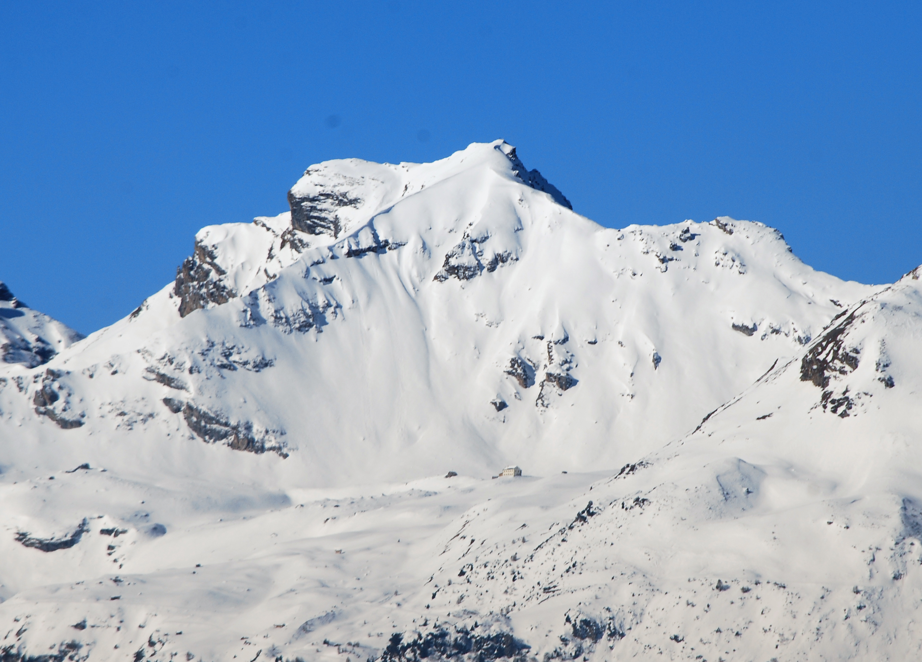 Hammerspitze from NE, Padasterjochhaus